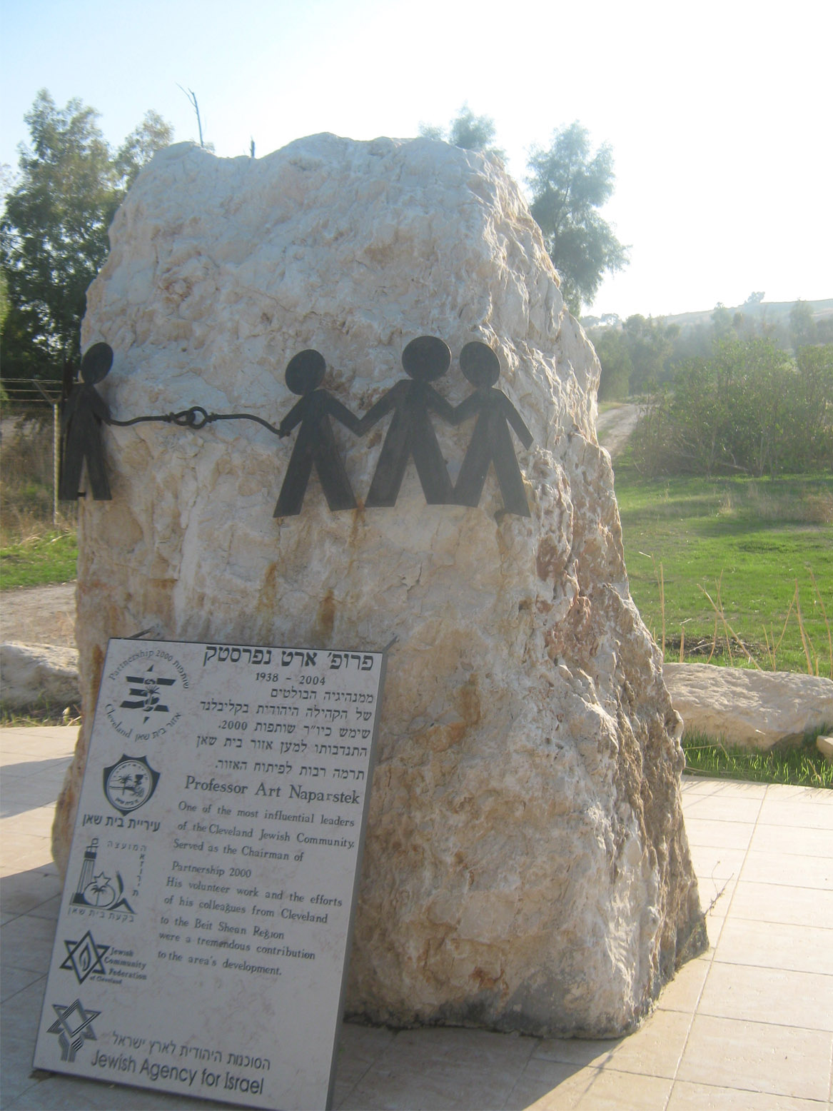 Memorial to Professor Art Naparstek prominent customs of the Jewish community in Cleveland. Served as chairman of Partnership 2000 Beit Shean area